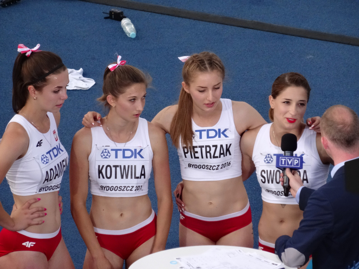 2016 IAAF World U20 Championships in Bydgoszcz, 4x100m relay women final